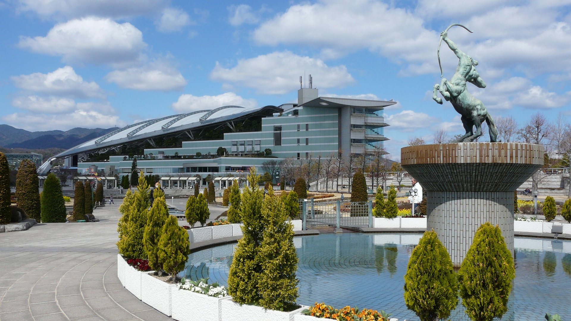 Hanshin_race_course_07